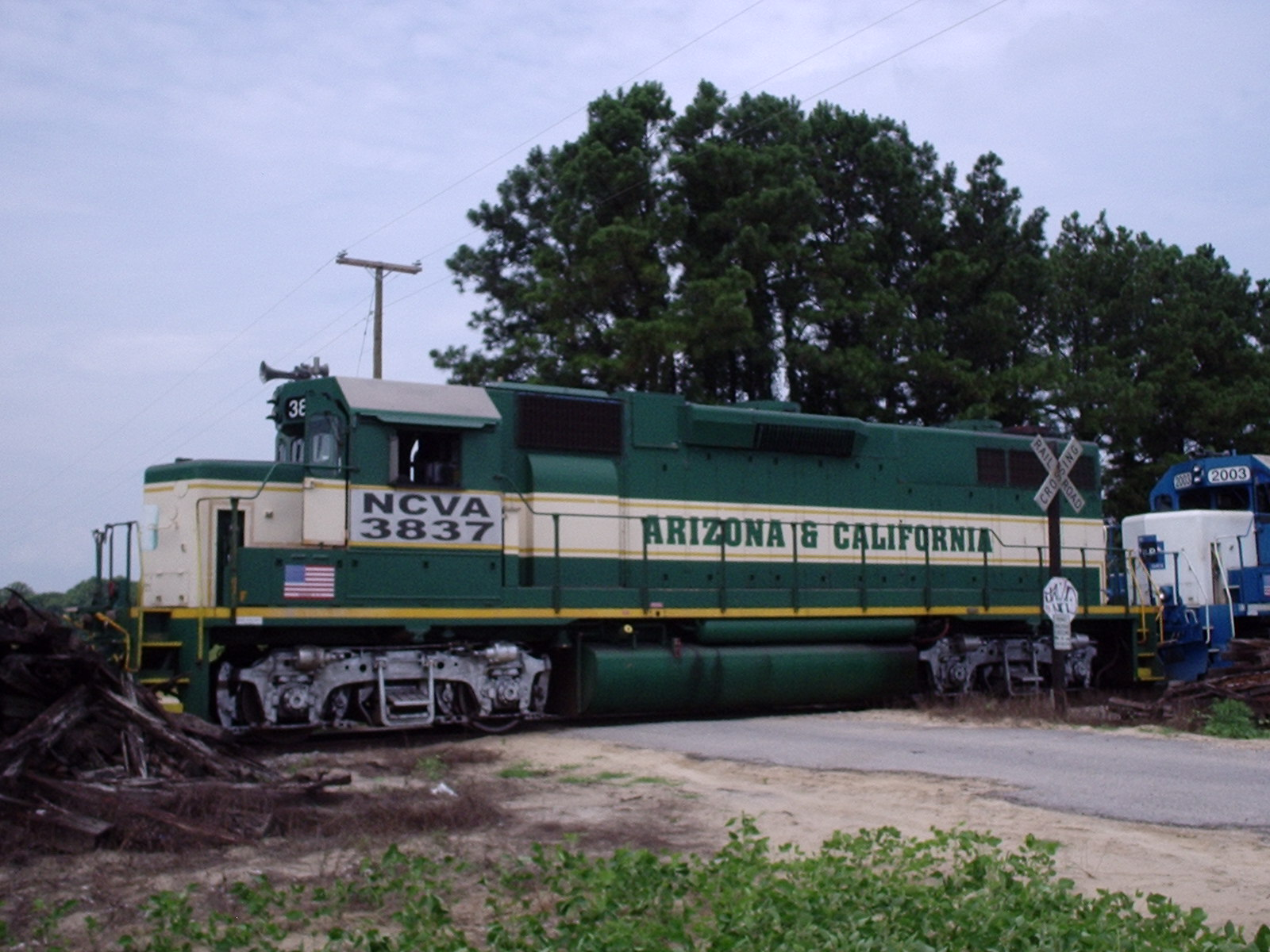 NCVA 3837 photo by William Grimes